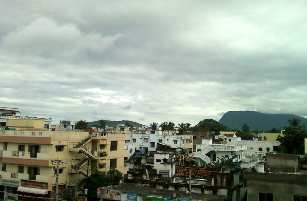 A view of Vizianagaram city near Fort area